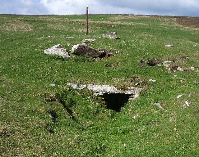 Huntersquoy chambered cairn, Eday. This chambered cairn is on the waymarked walk from the Stone of Setter around Red Head. There are two chambers reached by separate passages, one above the other. Little remains of the upper chamber and whilst the lower chamber is intact it is usually flooded.